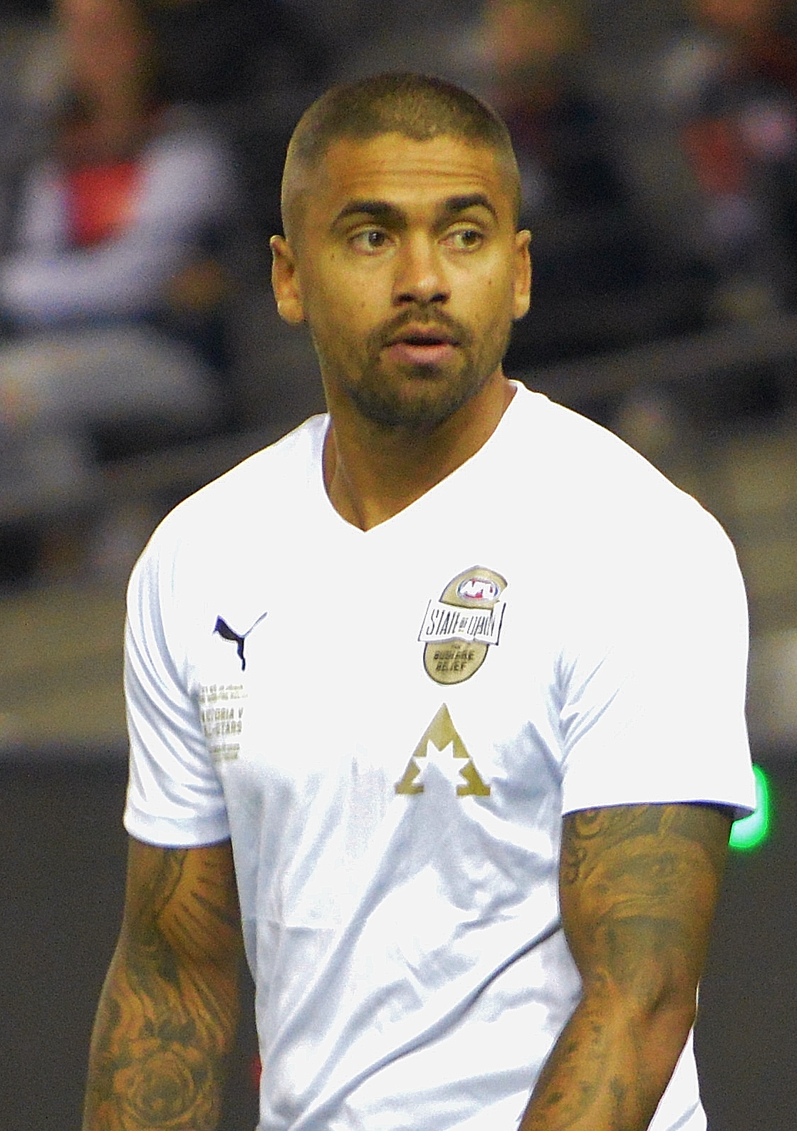 Brad Hill at the AFL State of Origin for Bushfire Relief Match at Marvel Stadium in February 2020.